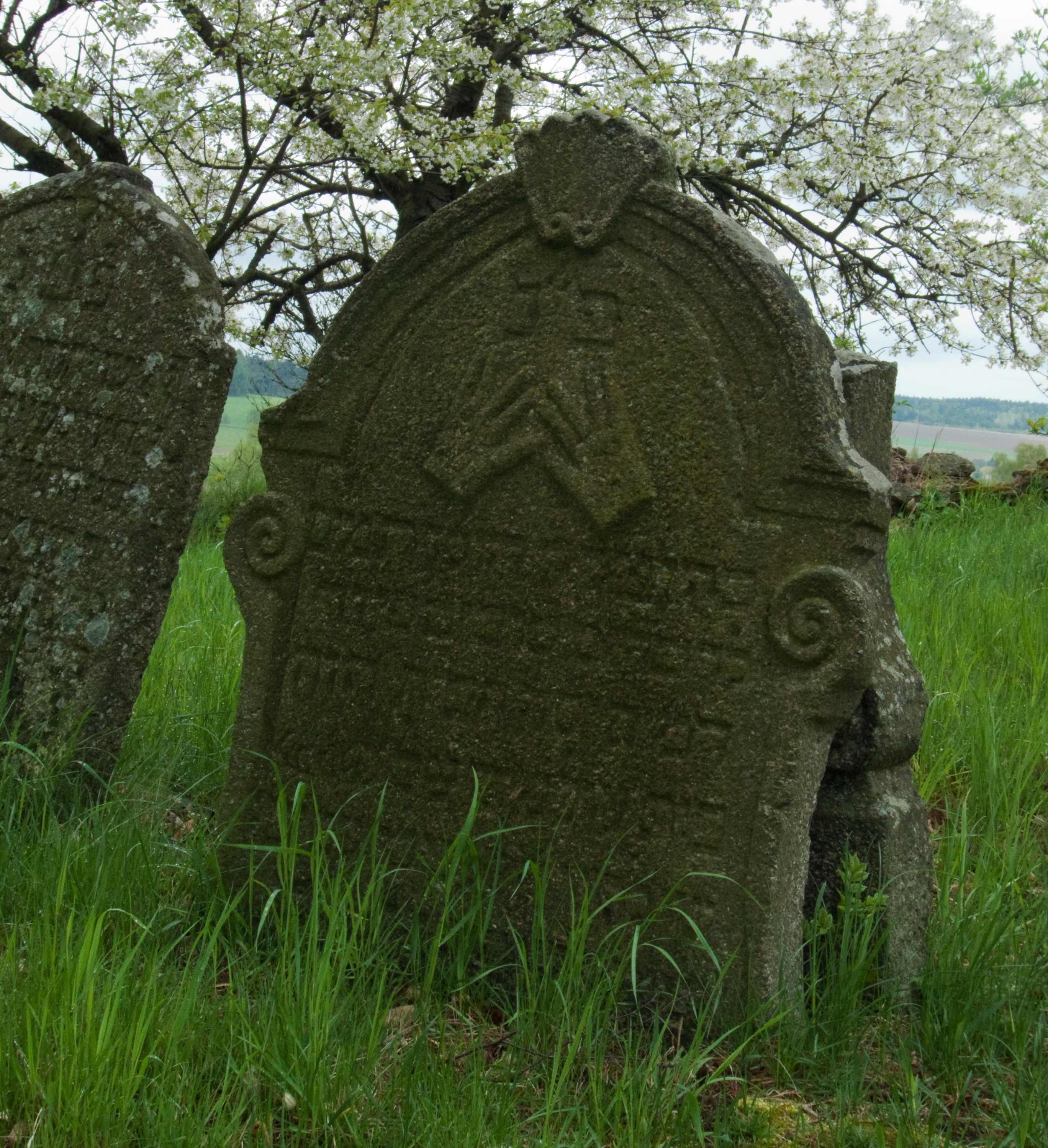 Tombstone with the blessing-hands symbol in the Jewish cemetery at the village of Prudice, Tábor district, Czech Republic, view towards the south-east.